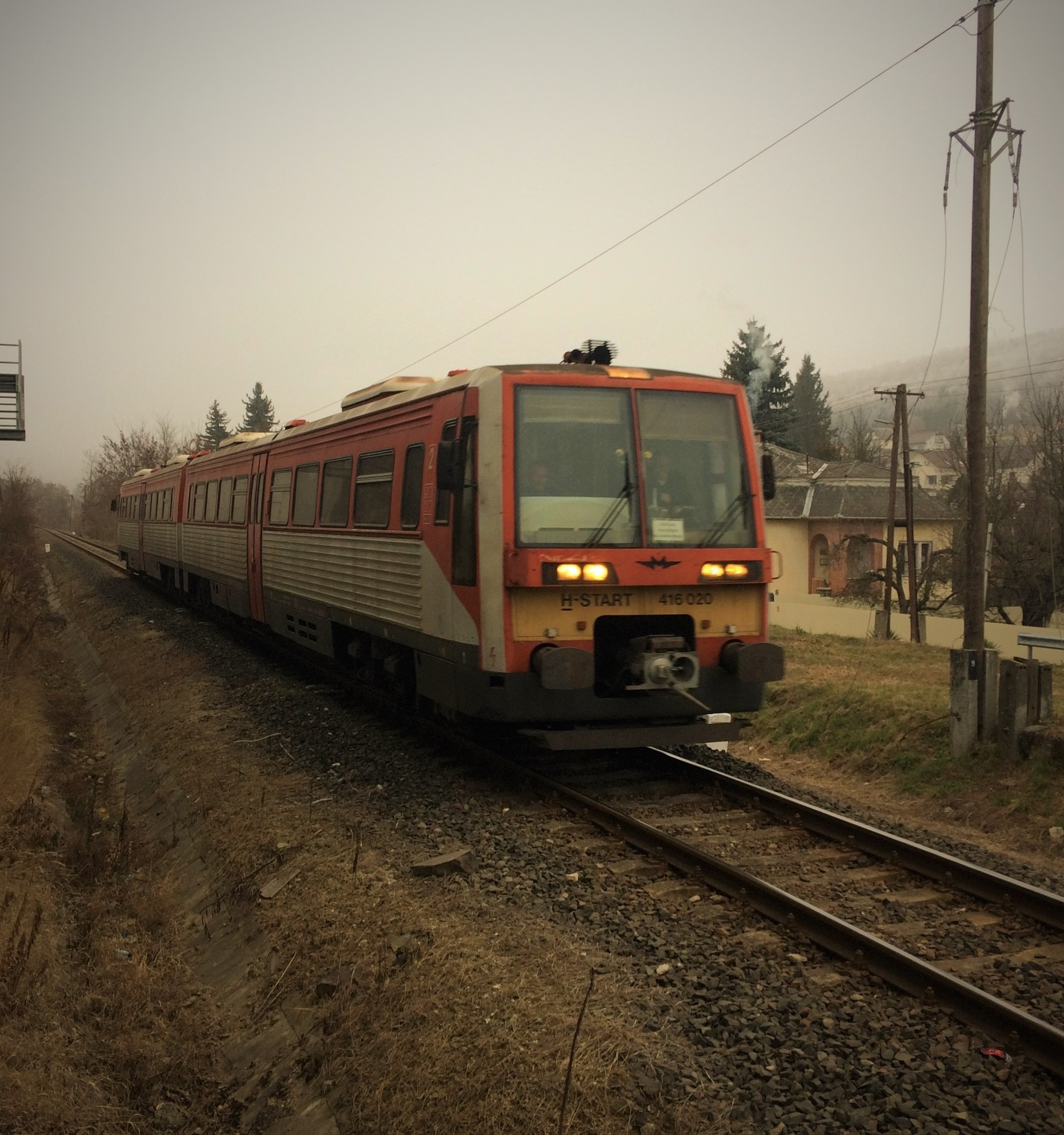 MÁV 6341 DMU in Salgótarján whit Somoskőújfalu–Hatvan regional train